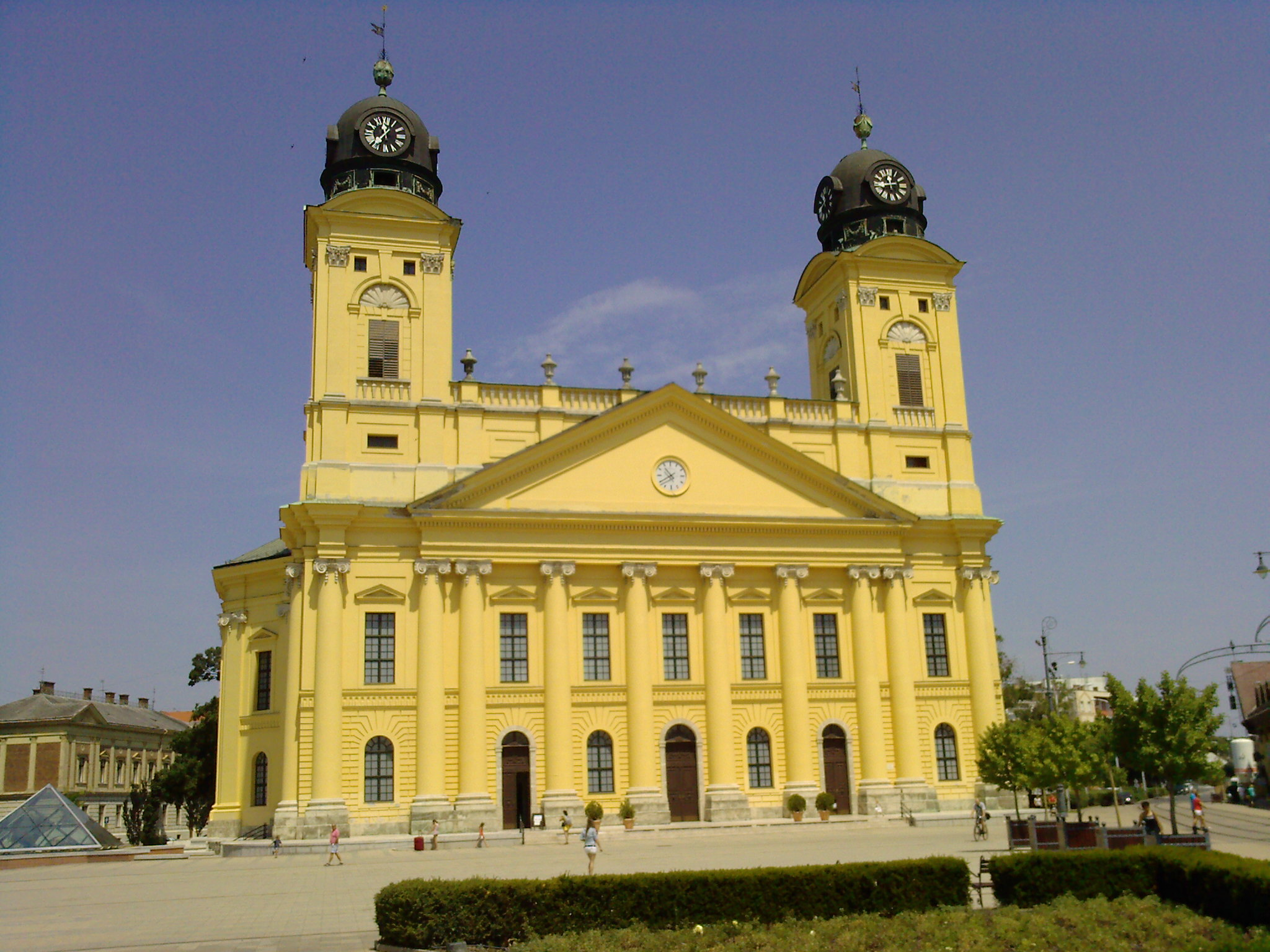 Reformed Great Church of Debrecen This is a photo of a monument in Hungary, Identifier: 5233